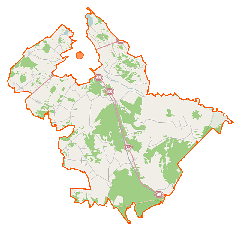 Map of Gmina Grajewo, Poland This map of Grajewo (gmina wiejska) was created from OpenStreetMap project data, collected by the community. This map may be incomplete, and may contain errors. Don't rely solely on it for navigation. Border coordinates53.707722.3091←↕→22.751353.4553